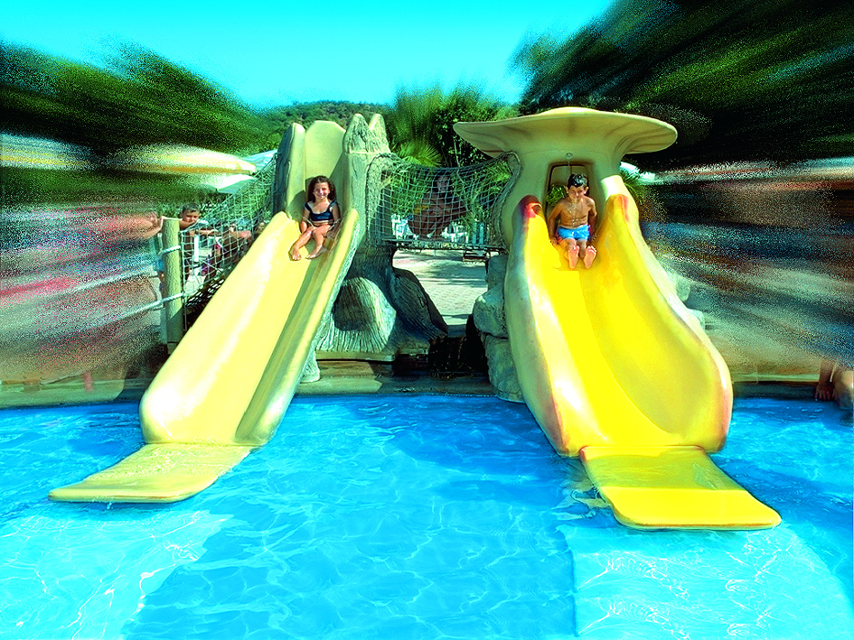 Baby Area at AQUAPARK in Zambrone